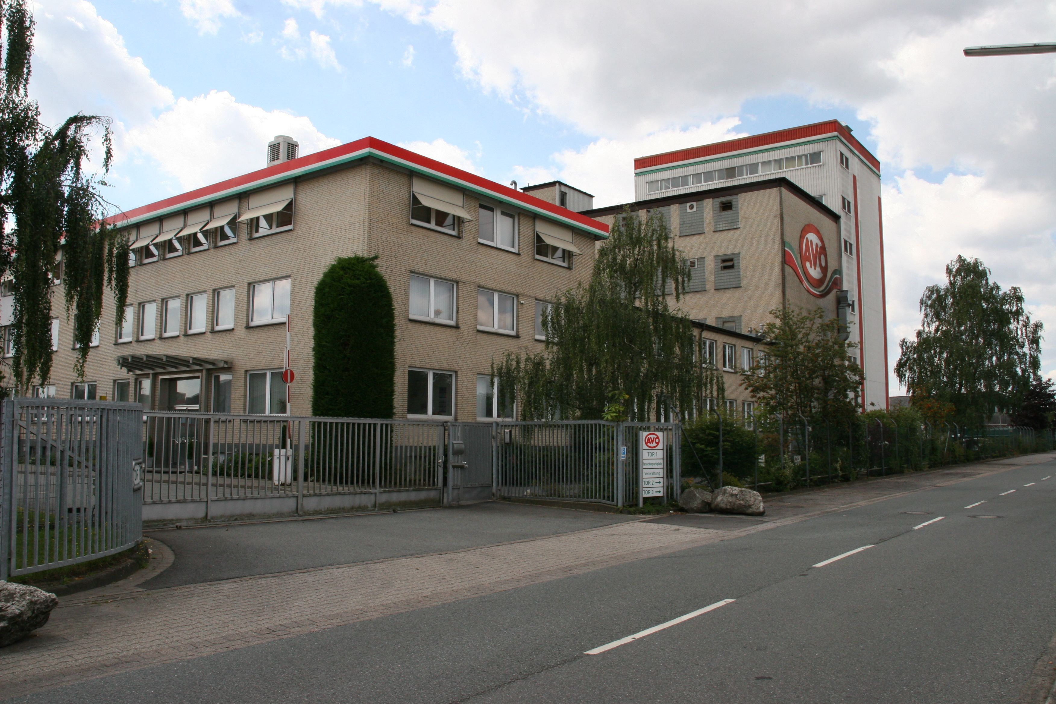 Belm: AVO Spice Trade